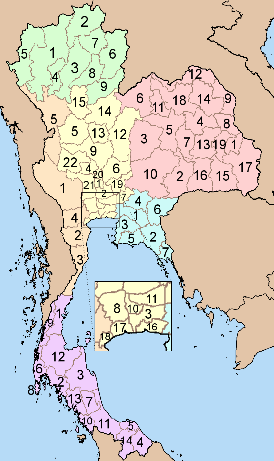 Map of Thailand showing the provinces numbered. Numbering is done according to alphabetic sorting of the standard english transscription of the province name, done for each of the six regions separately.